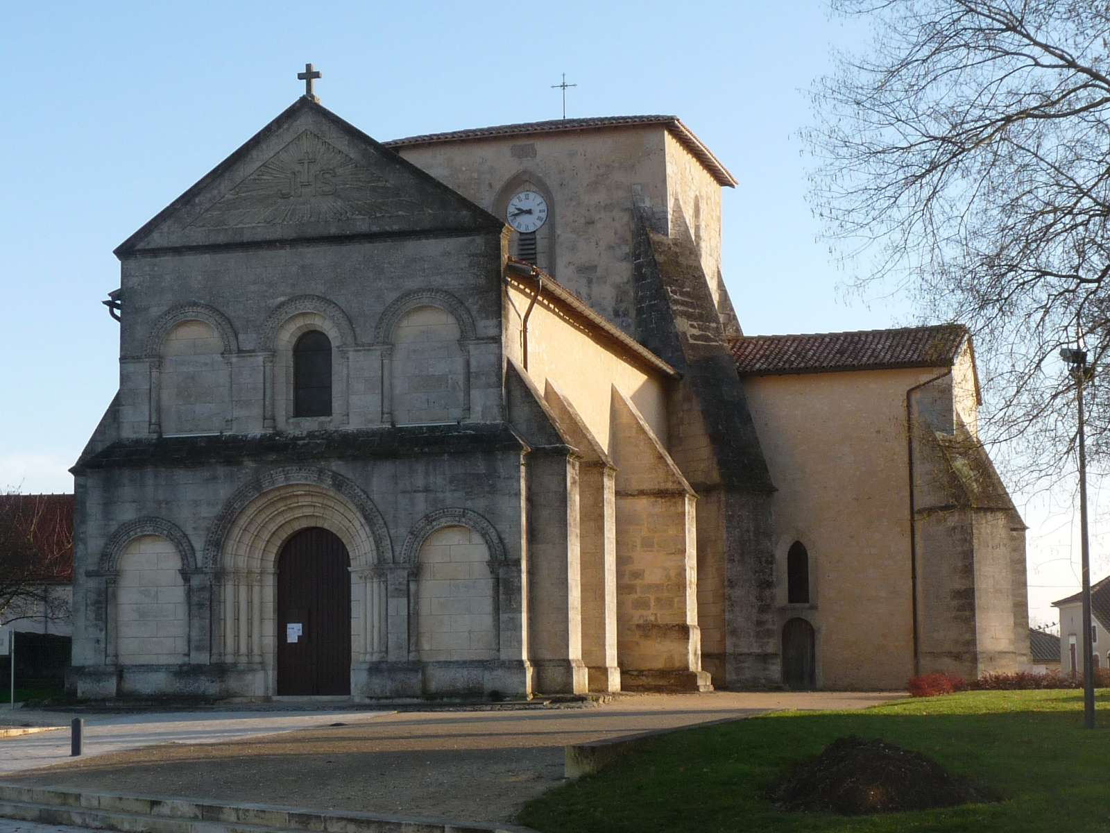 churche of Chevanceaux, Charente-Maritime, SW France